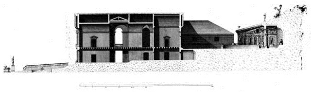 Villa Barbaro in Maser, province of Venice, by Andrea Palladio. Drawing by Ottavio Bertotti Scamozzi, 1781, detil of